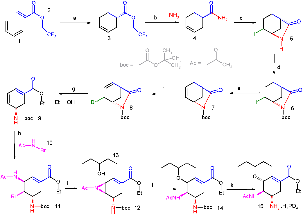 Summary Corey oseltamivir synthesis